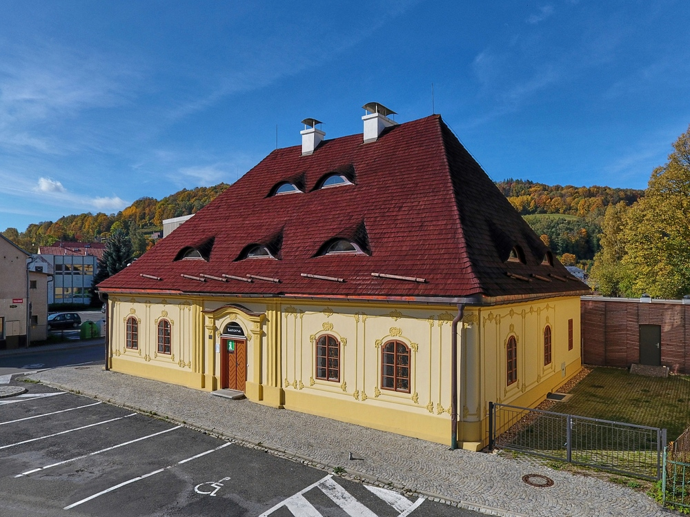 Katovna in Jesenik